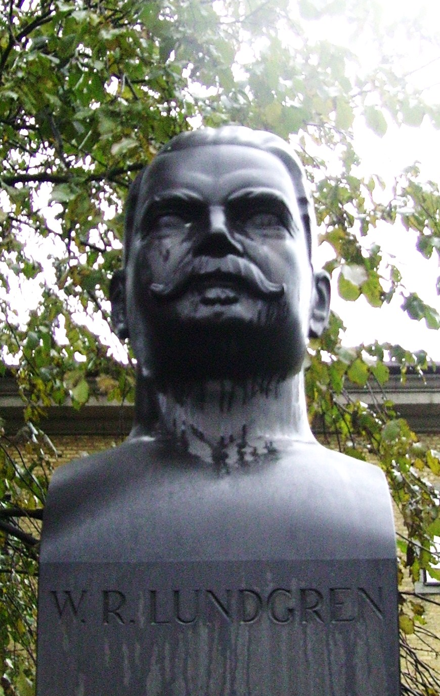 Picture of Wilhelm R. Lundgren's bust in Göteborg